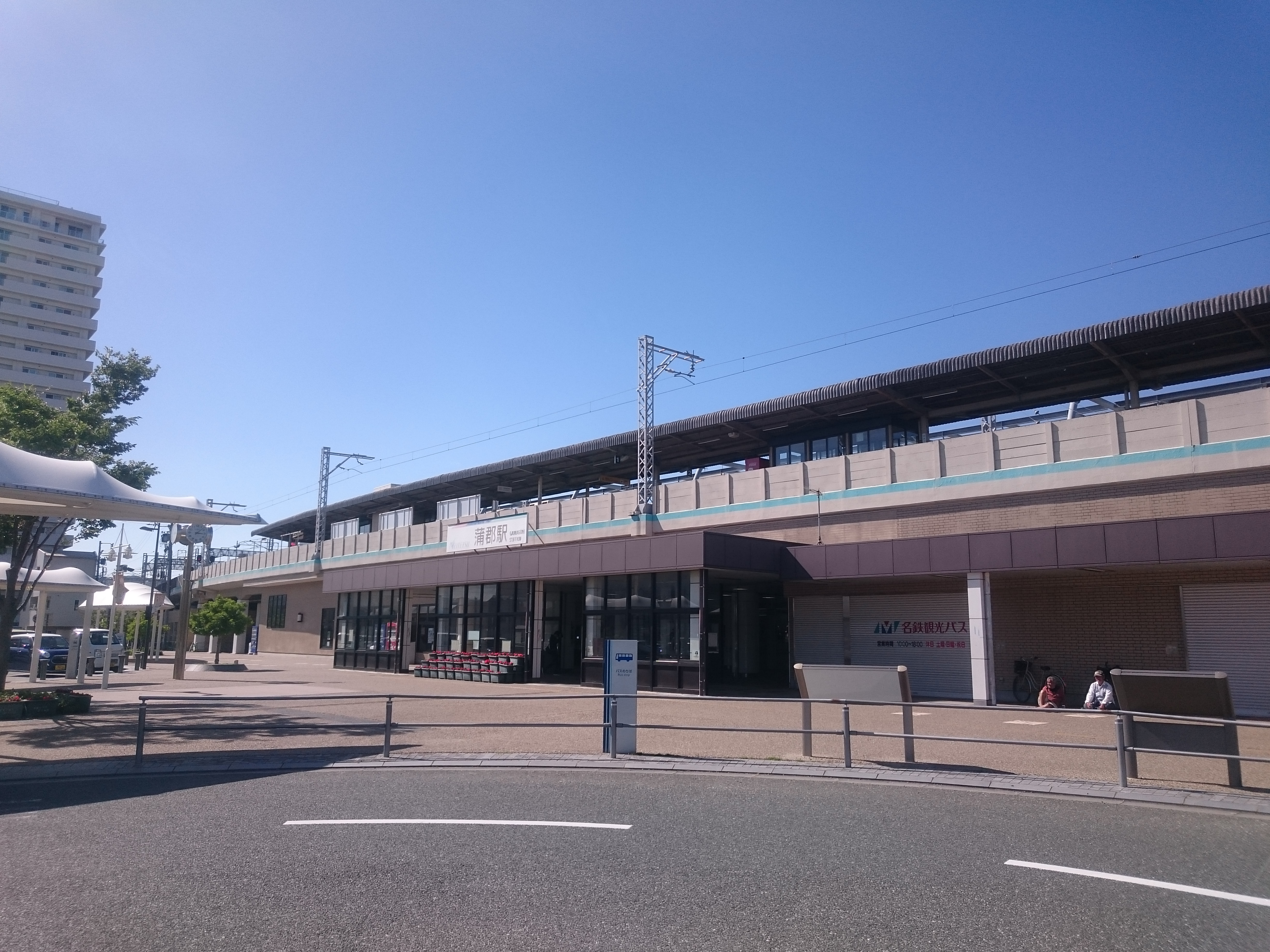 Gamagori Station (蒲郡駅), located in Gamagori, Aichi, Japan Sony Xperia Z3